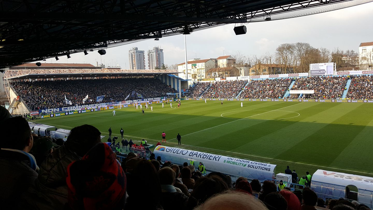 Stadio Paolo Mazza in february 2018